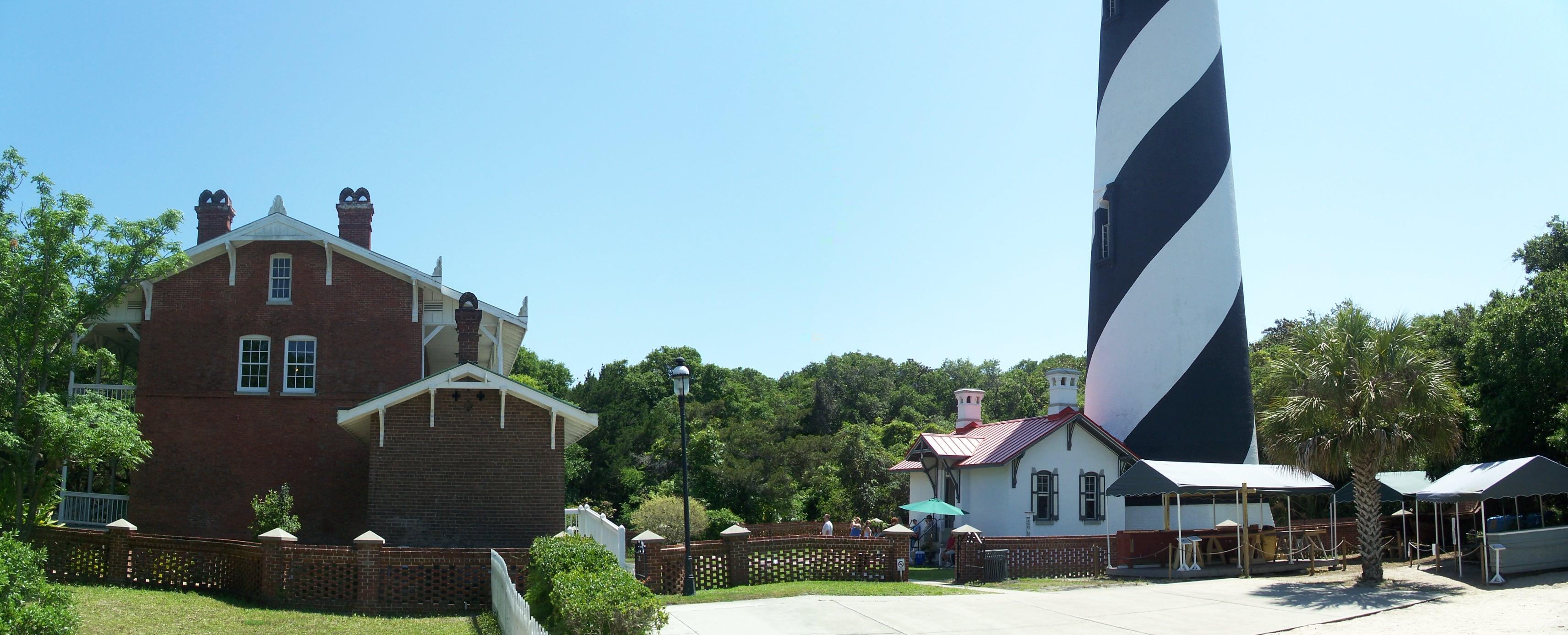 St. Augustine, Florida: St. Augustine Light: Panoramic view of the old Keeper's Quarters (on the left) and the bottom portion of the lighthouse